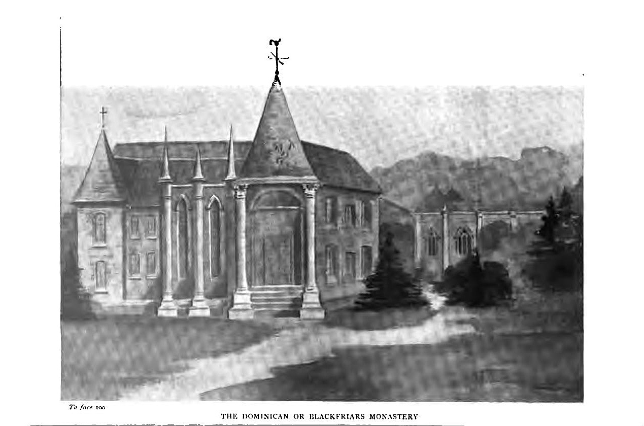 Sketch of the medieval monastery of the Blackfriars now lost.